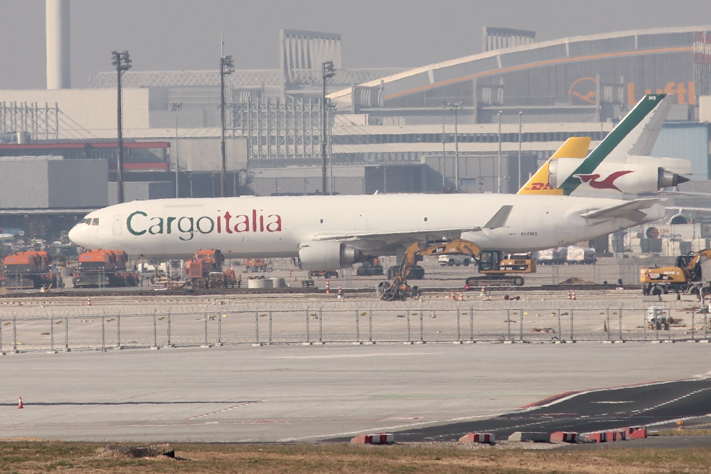 A MD-11 of Cargoitalia at Frankfurt Airport